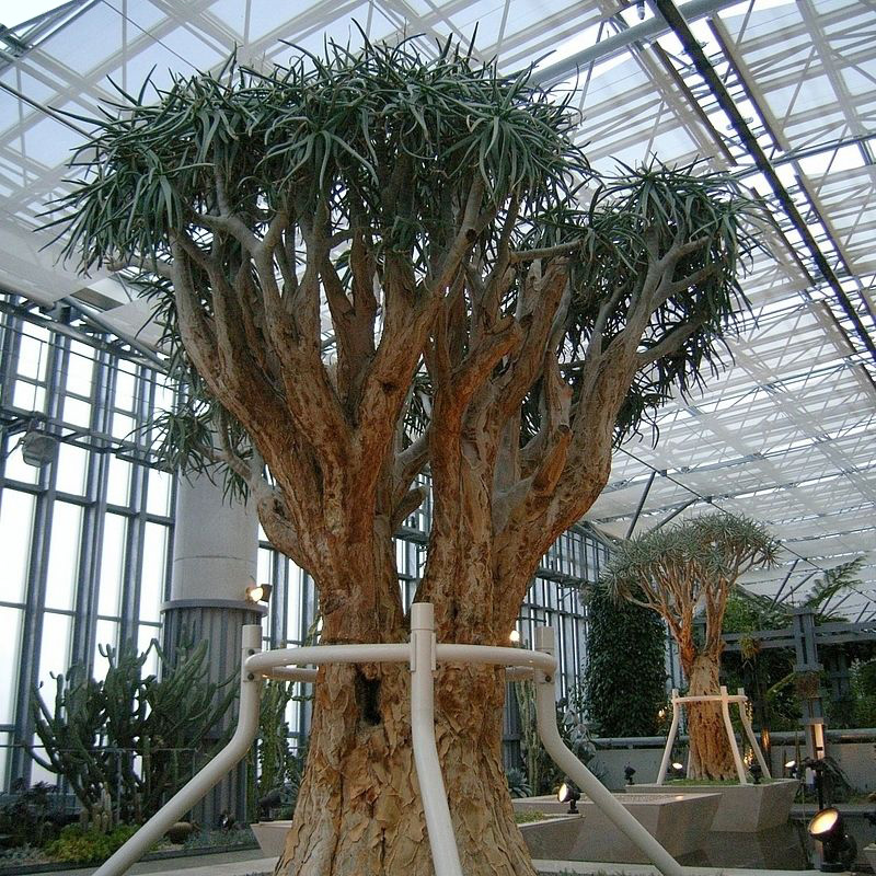 Aloe dichotoma アロエディトコマ 世界最大のアロエ。ナミビア原産。 Aloe dichotoma known as quiver tree. The largest aloe.